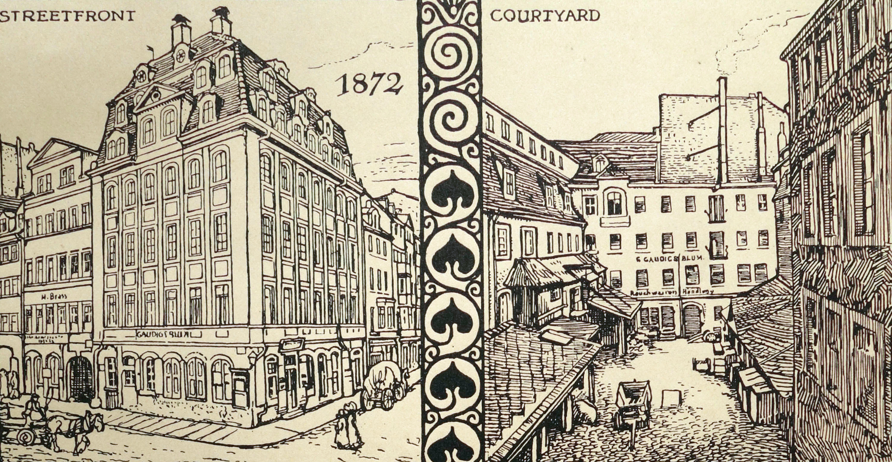 Gaudig & Blum, Leipzig - New York - Berlin - London - Paris. Jubilee Almanac 1912.